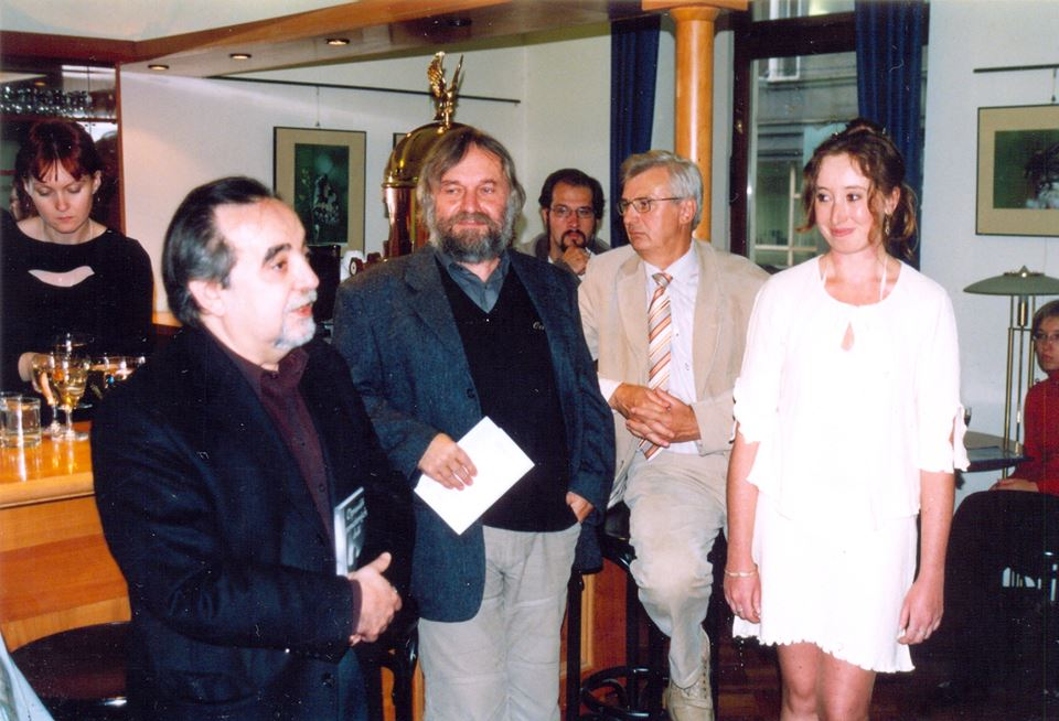 Křest knihy Opraváři pomatených duší v knihkupectví Academia, Praha, Václavské náměstí. S kmotry Vladimírem Justem a Dušanem Kleinem.